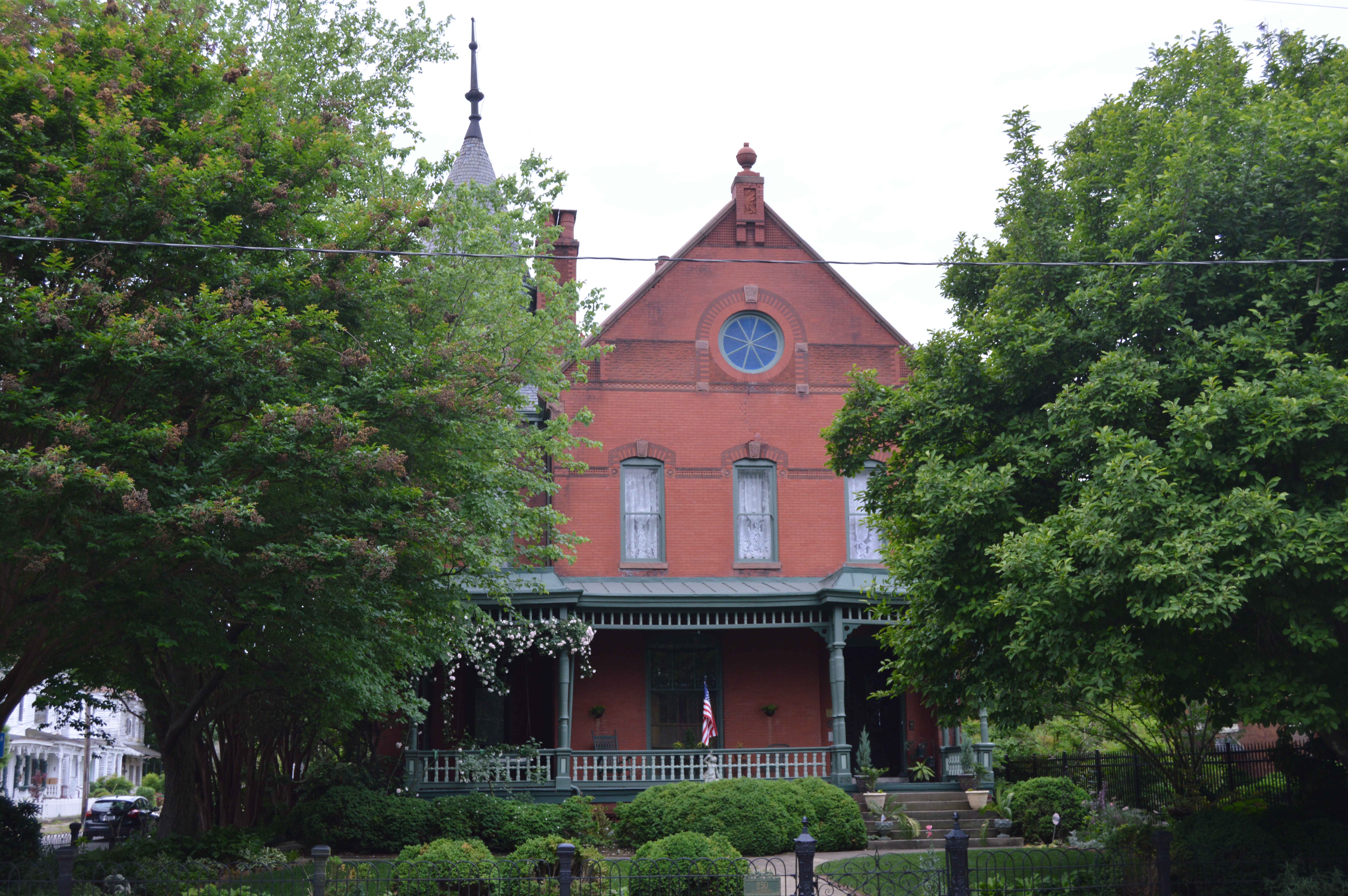 Front of the William McKenney House, located at 250 S. Sycamore Street in Petersburg, Virginia, United States. Built in 1890, it is listed on the National Register of Historic Places, and it is part of a Register-listed historic district, the Poplar Lawn Historic District.